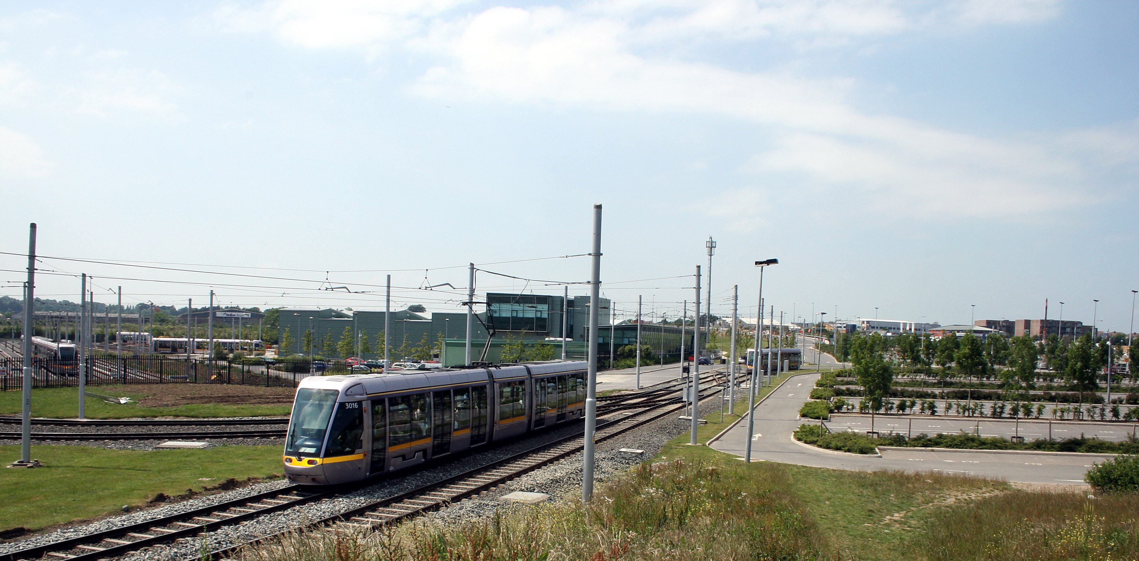 Luas trams passing through the Red Cow Depot